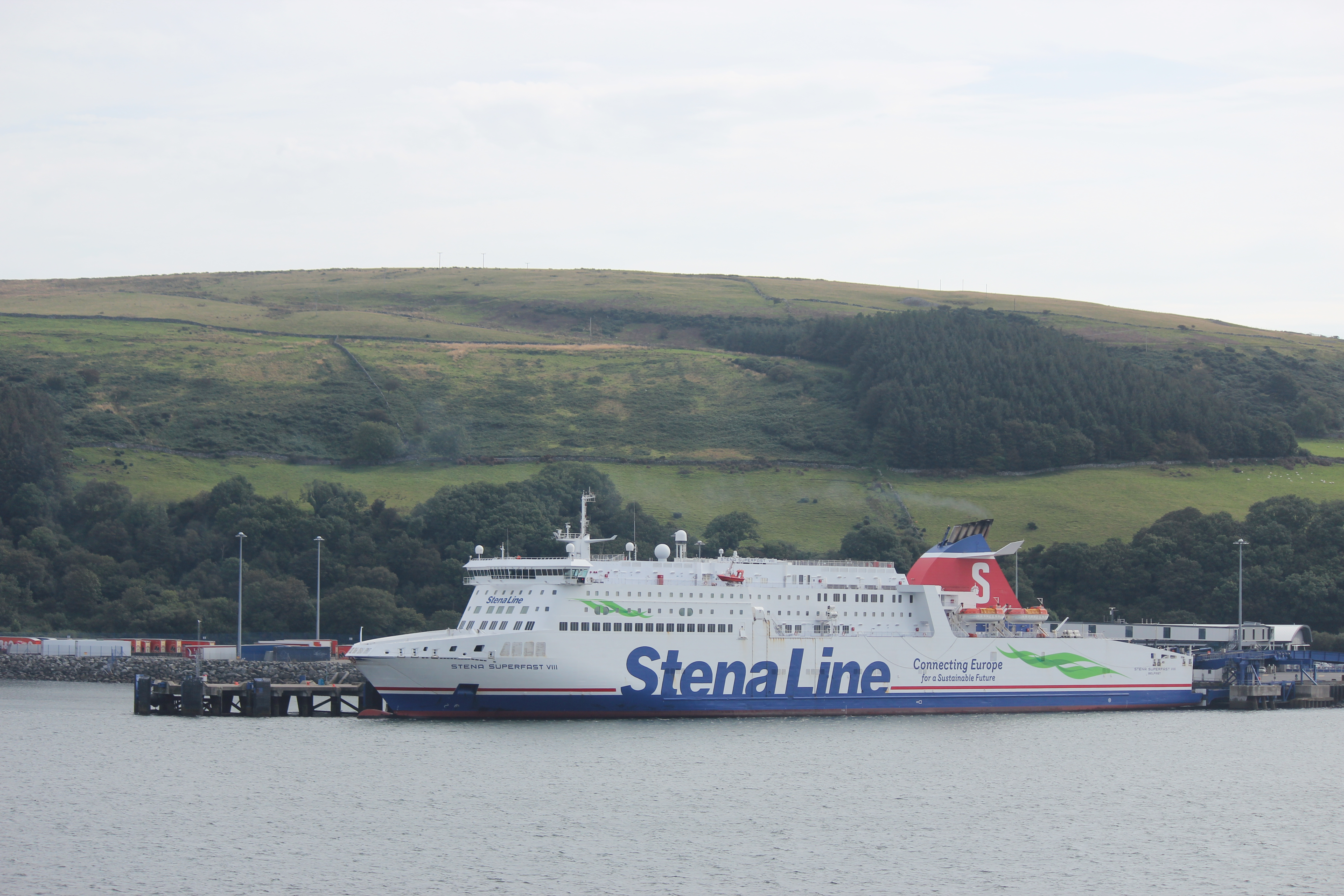 Stena Superfast VIII at Cairnryan Harbour, Scotland in August 2019